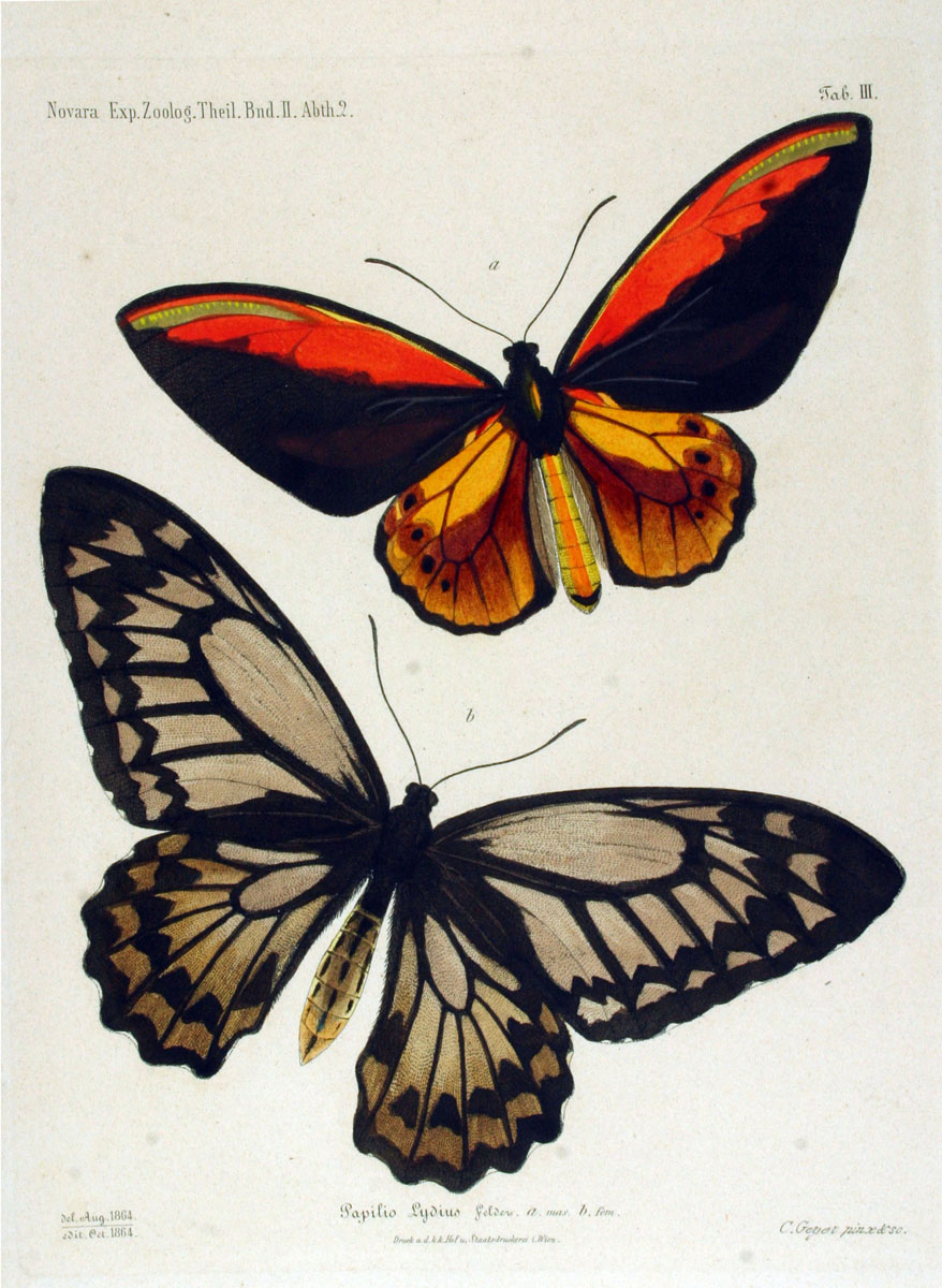 Reise der Österreichischen Fregatte Novara um die Erde in den Jahren 1857, 1858, 1859 unter den Befehlen des Commodore B. von Wüllerstorf-Urbair. (1864) Zoologischer Theil. 2. Band. Zweite Abteilung: Lepidoptera.Tafel III. Papilio lydius